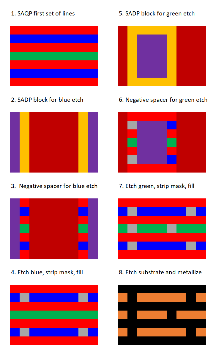 SAQP combined with selective SADP blocking is an example of the crossed multiple patterning combined with self-aligned blocking, described by TEL and Mentor Graphics,[1][2][3][4][5] as well as Coventor and IMEC.[6] Negative spacers[7] are also assumed here.